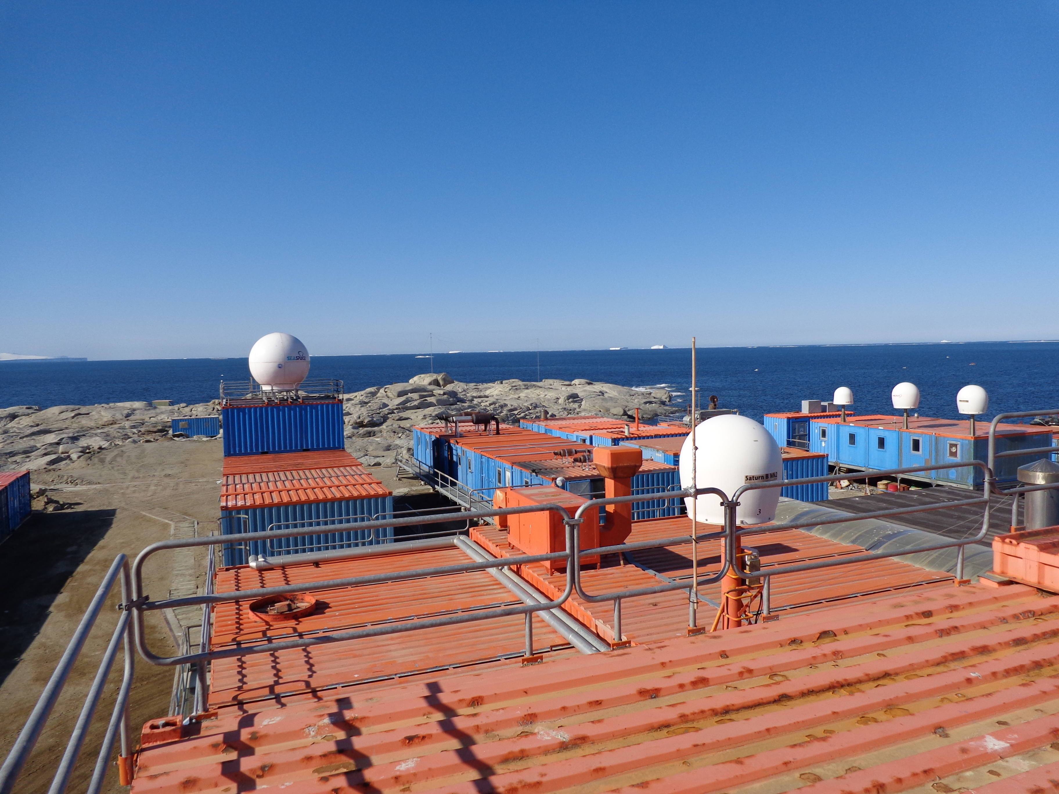 Mario Zucchelli Station, Terra Nova Bay, Antarctica